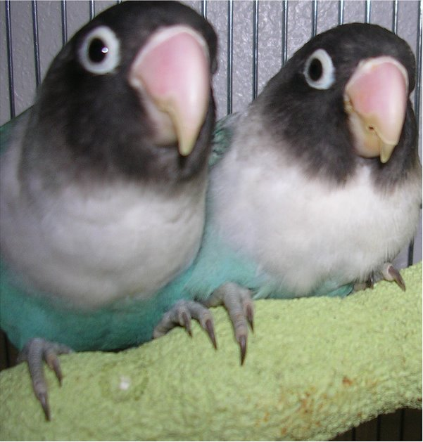 The blue mutant of the Masked Lovebird Agapornis personata. This variety is called blue Masked Lovebird.